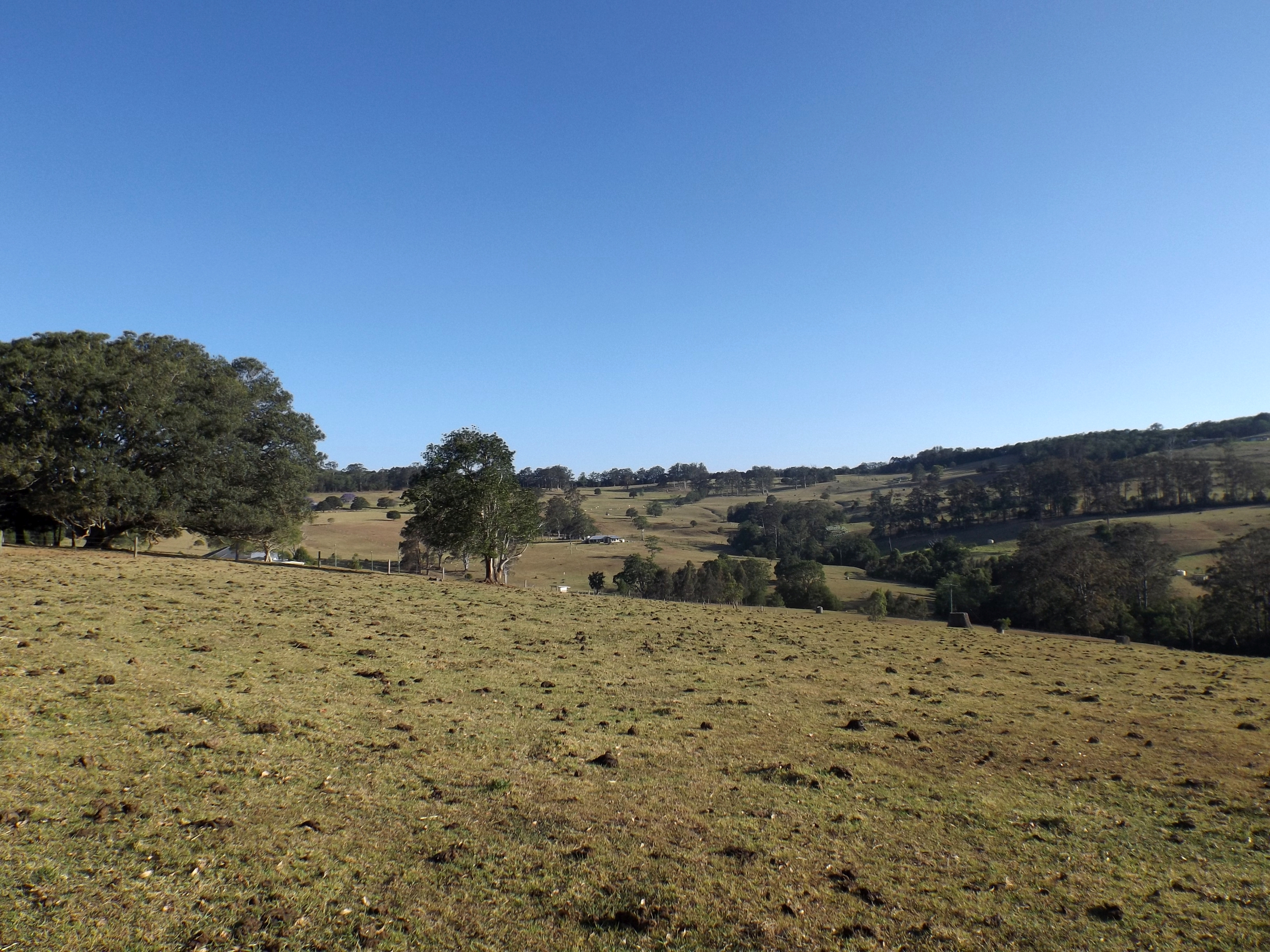 Photo of fields at Ravensbourne, Queensland, Australia.